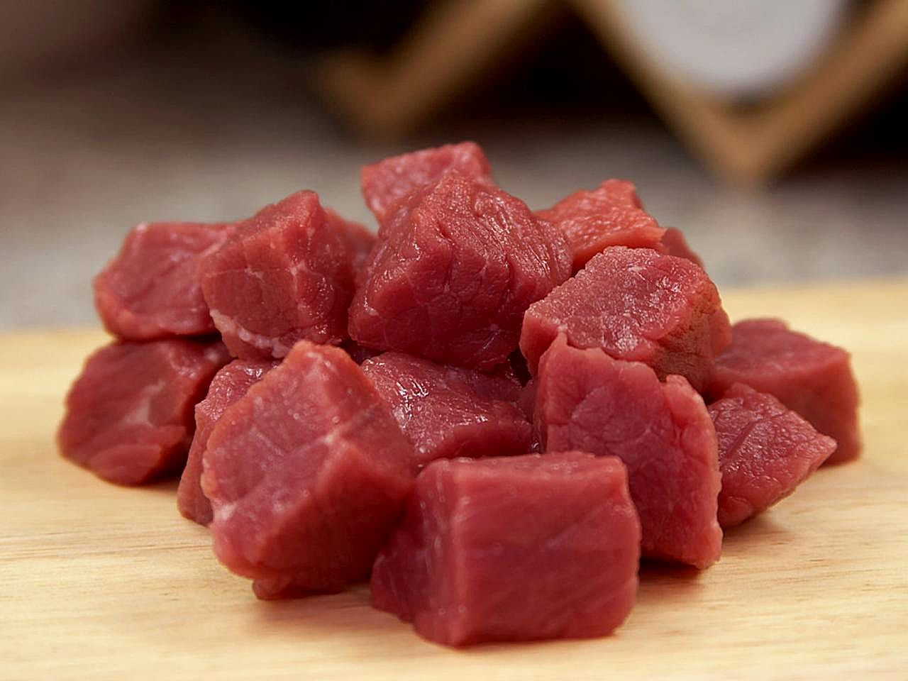 Image title: Fresh meat Image from Public domain images website